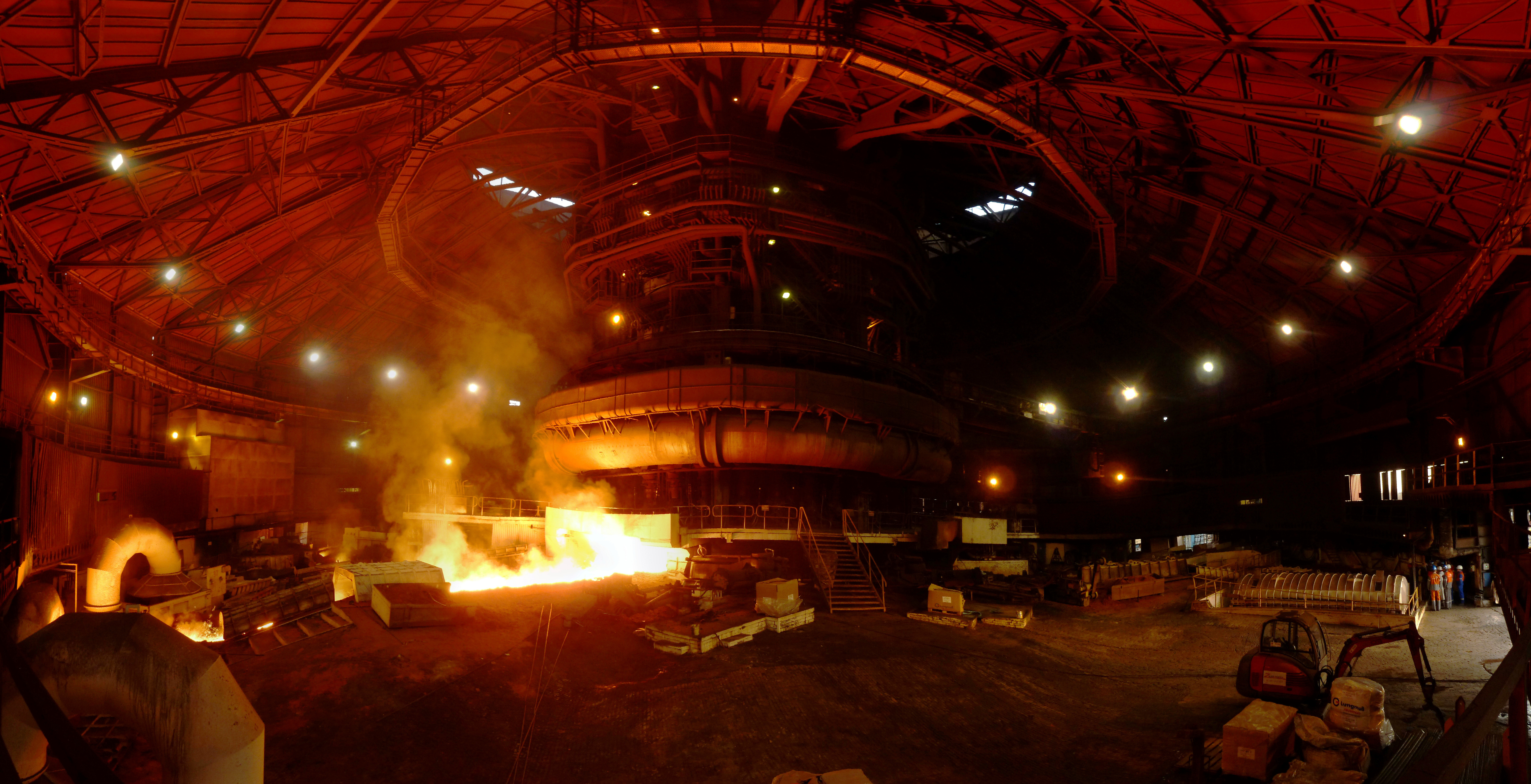 View of the casting floor and of the blast furnace proper of Blast Furnace 2 of Dąbrowa Górnicza, Poland, in 2014. The central positioning of the BF proper, in a circular hall, is caracteristic of the soviet blast furnaces. Panorama created with Hugin from 6 wide angle pictures (Panasonic TZ7).